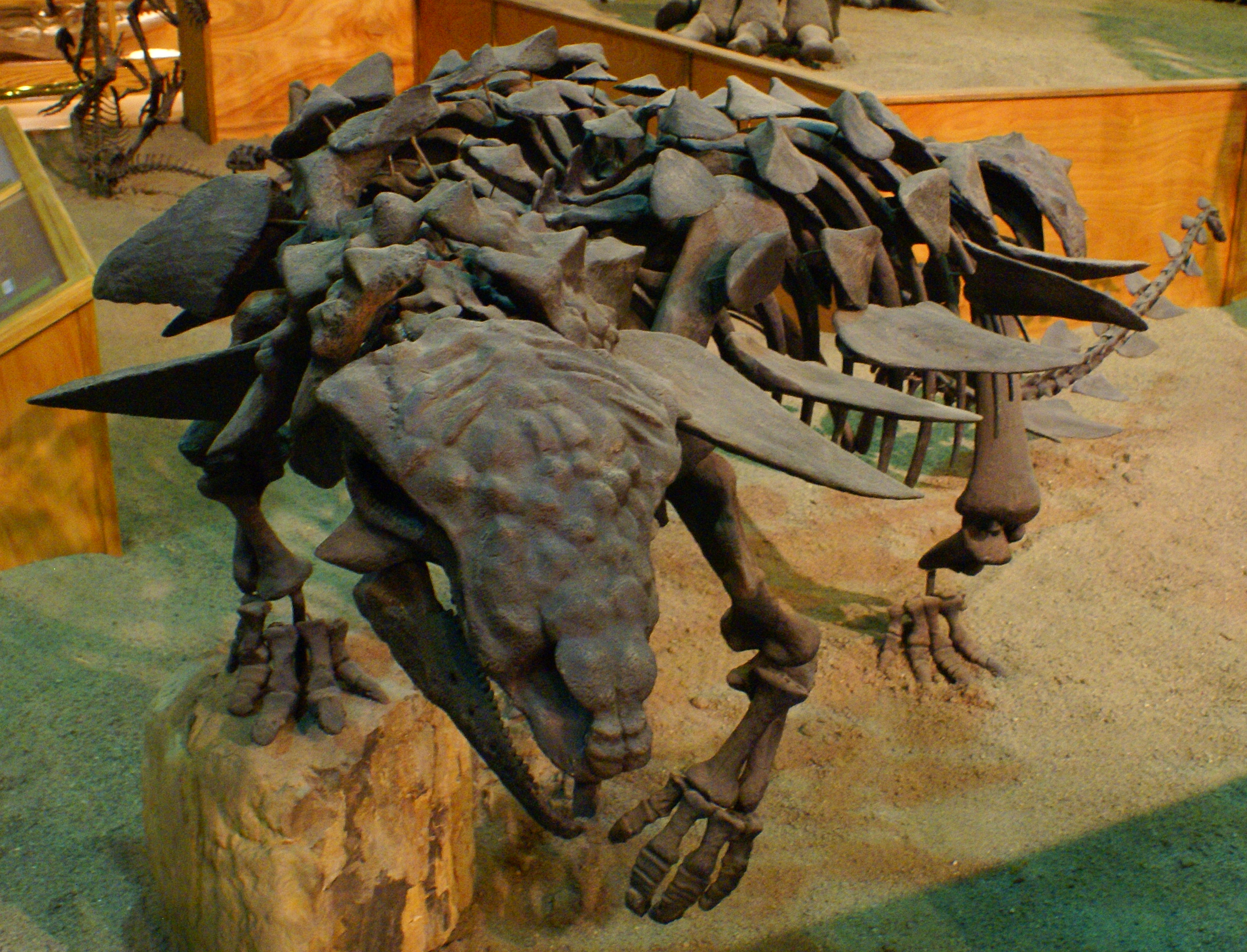 147 Wyoming Dinosaur Center